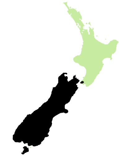 Map showing the Te Tai Tonga electorate based on boundaries used for the 2008 and 2011 general elections